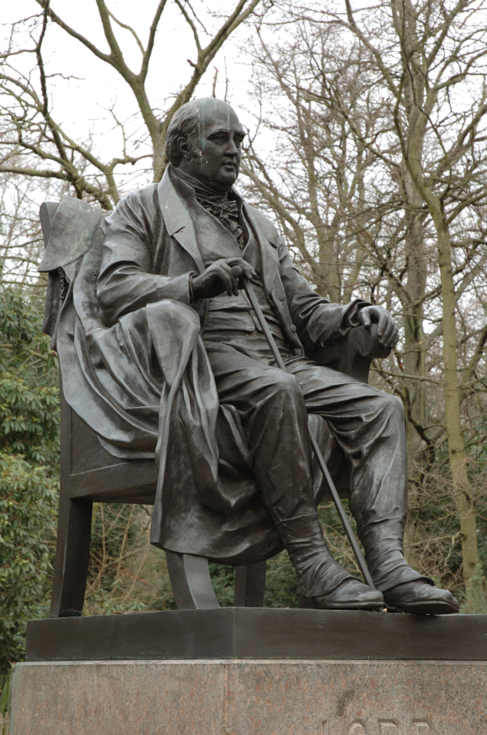 Statue of Lord Holland, Henry Vassall-Fox, 3rd Baron Holland, in Holland Park. Kensington, London, England, UK.